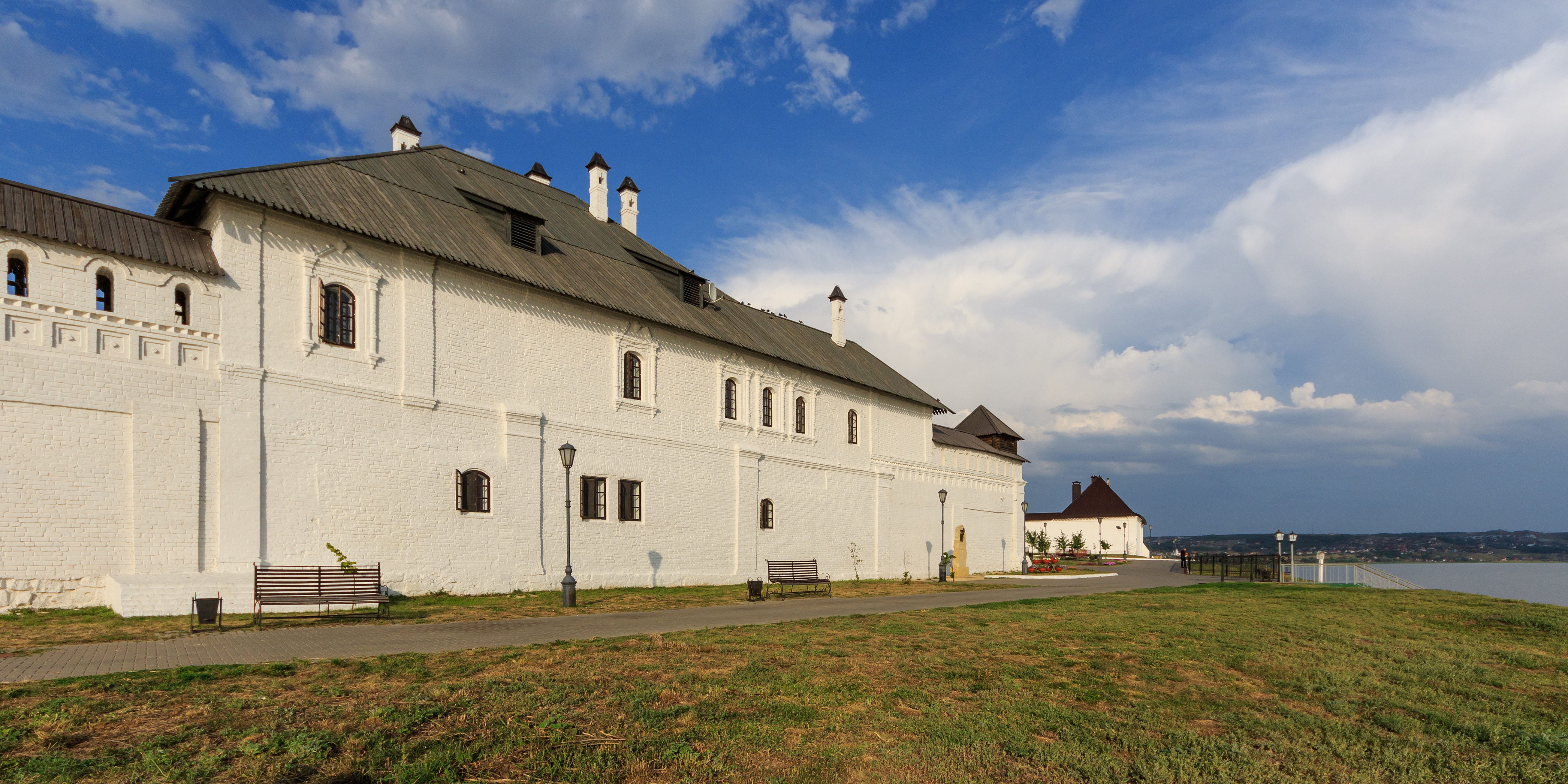 Archimandrite's residence of Uspensky Monastery. Sviyazhsk, Tatarstan, Russia.